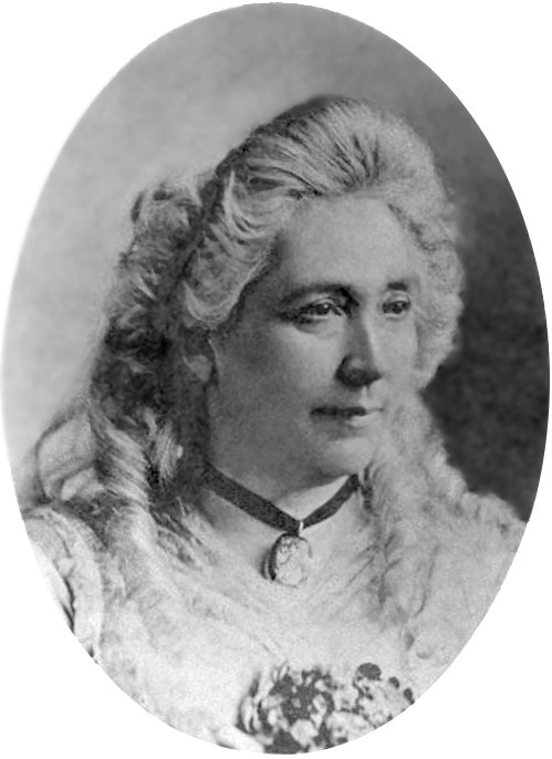 Jessie Benton Frémont (1824-1902), American author, wife of John C. Frémont.